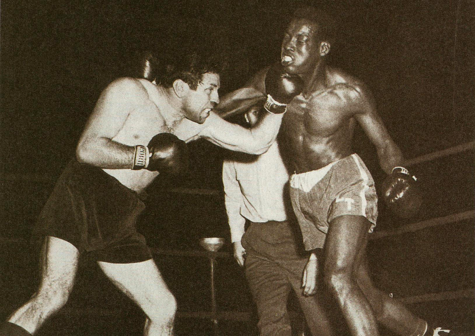 José María Gatica and Luis Federico Thompson during a boxing match.